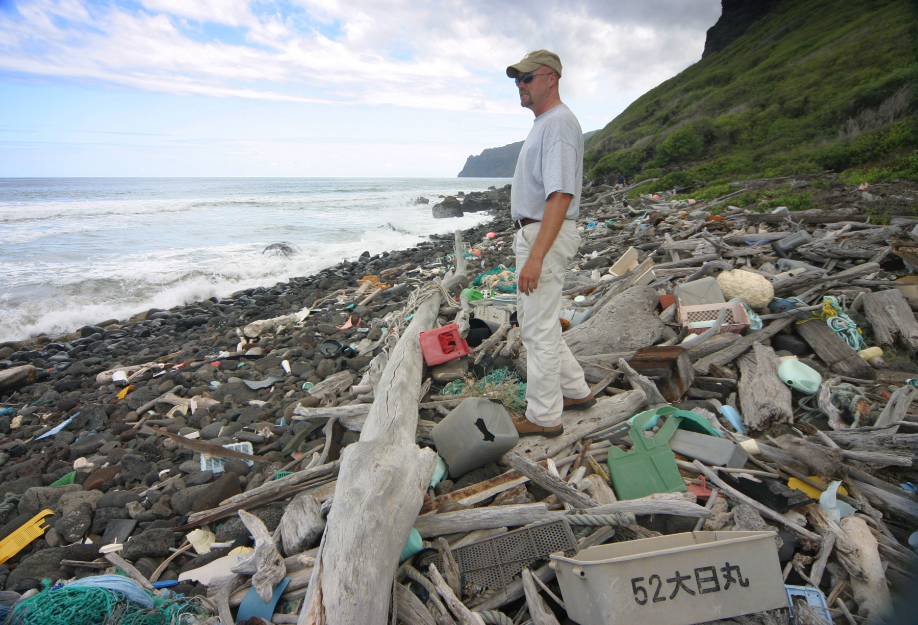 Photo showing oceangoing trash that accumulates on the windward (eastern) side of the Hawaiian Island of Niihau. 大日丸 could be referring to the Dainichi Maru.